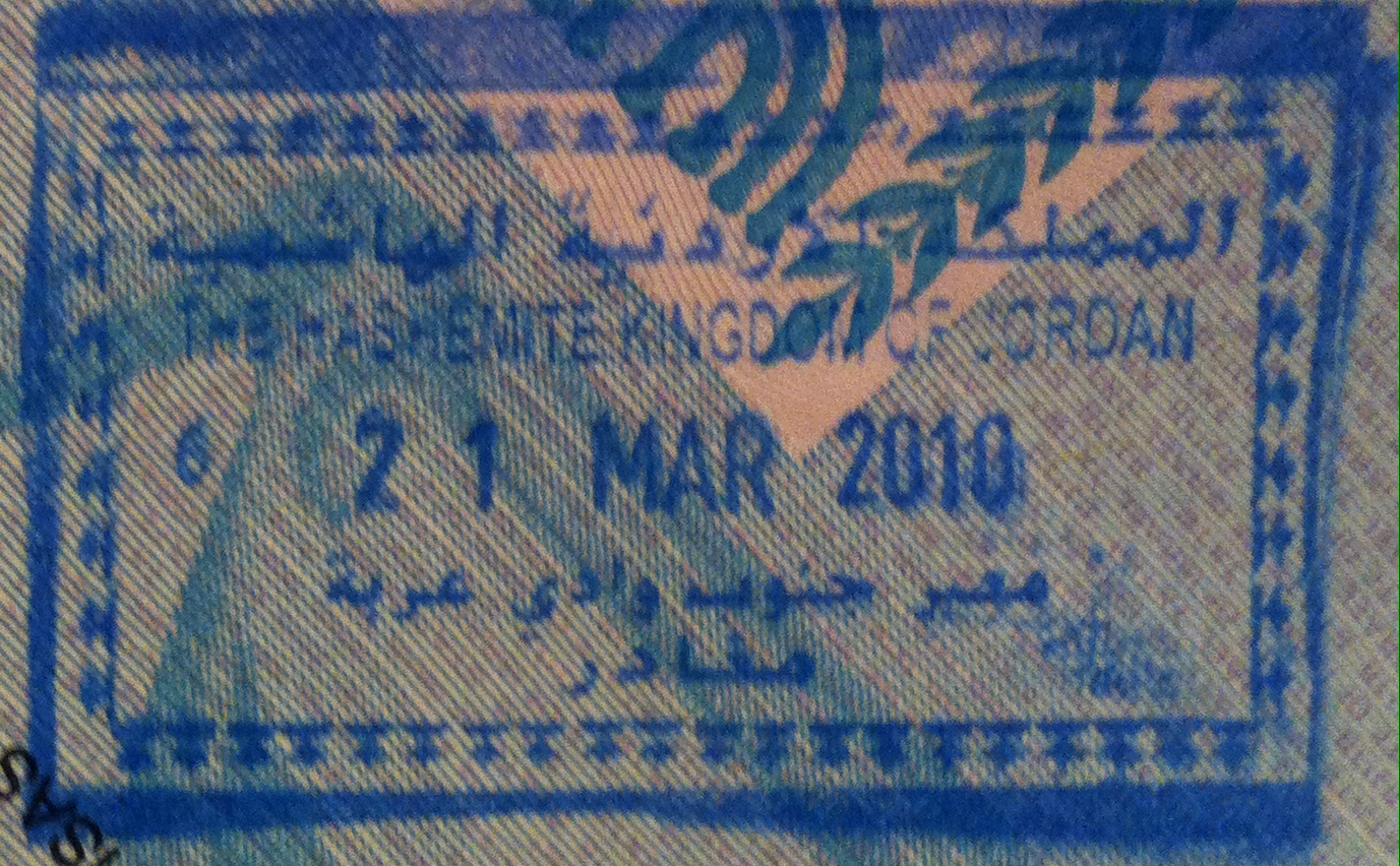 Jordanian Exit passport stamp in an Israeli passport at Wadi Araba Crossing.